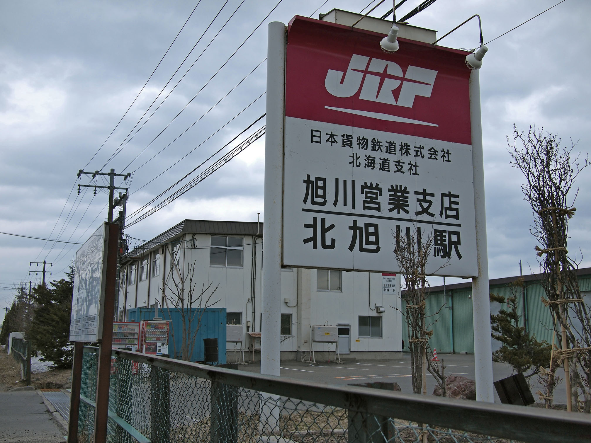 Kita-Asahikawa Freight Terminal, Asahikawa, Hokkaido, Japan